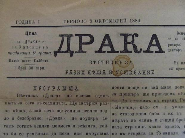 Draka 8 October 1884